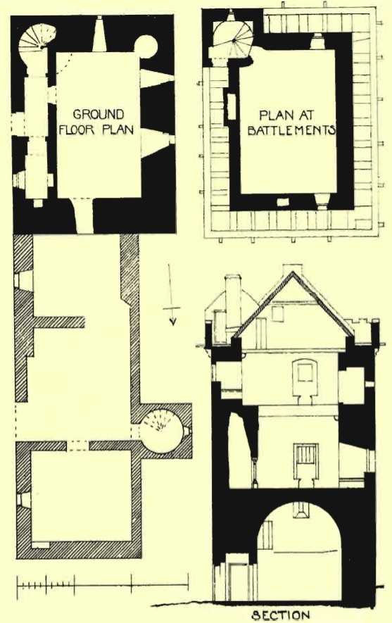 Two plans of, and a cross-section through, Rusco Tower. Published in 1889 in The Castellated and Domestic Architecture of Scotland, Volume 2, by David MacGibbon and Thomas Ross.